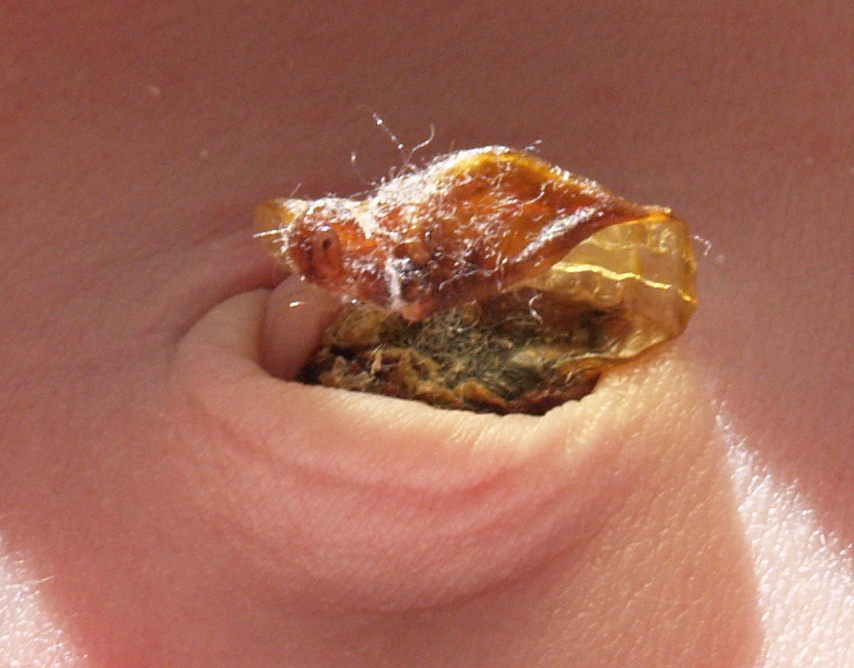 This is a picture of our daughter's umbilical cord stump seven days after birth. The cord was cut and clamped at birth after the placenta was delivered. This picture was taken by me and is released in the public domain free of charge.